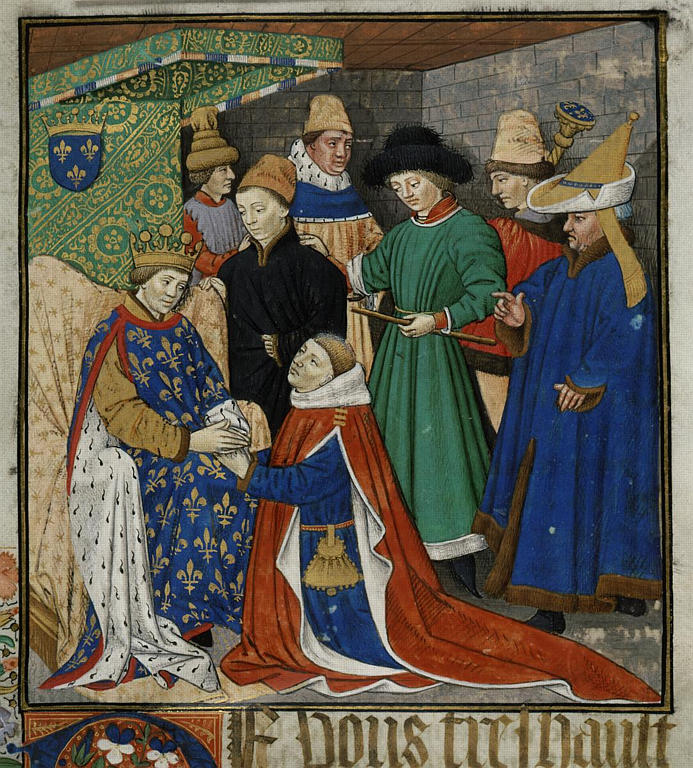 The event happened on 15th february, 1469. MS date probably soon after.